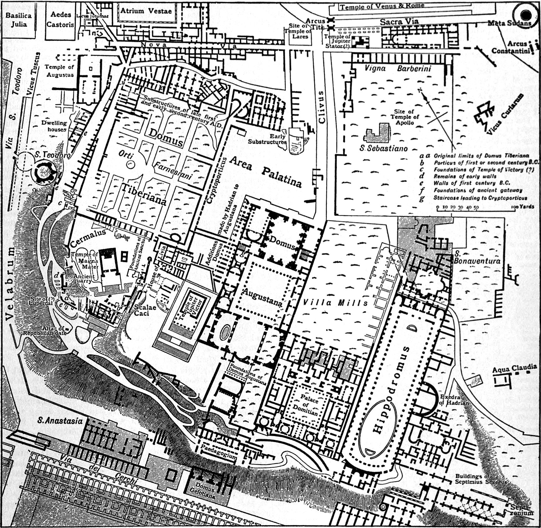 Map of the Palatine in Rome.